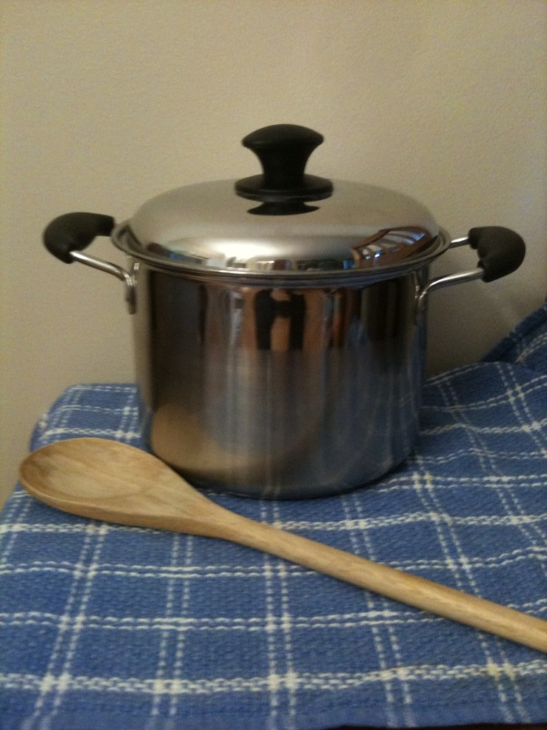 Stockpot